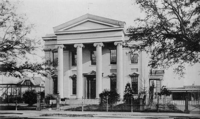 19th century photograph of 719 S. Carrollton Avenue, New Orleans. Building was the courthouse and town hall for the town of Carrollton, Louisiana before it was annexed by New Orleans. In the 20th century it housed schools.